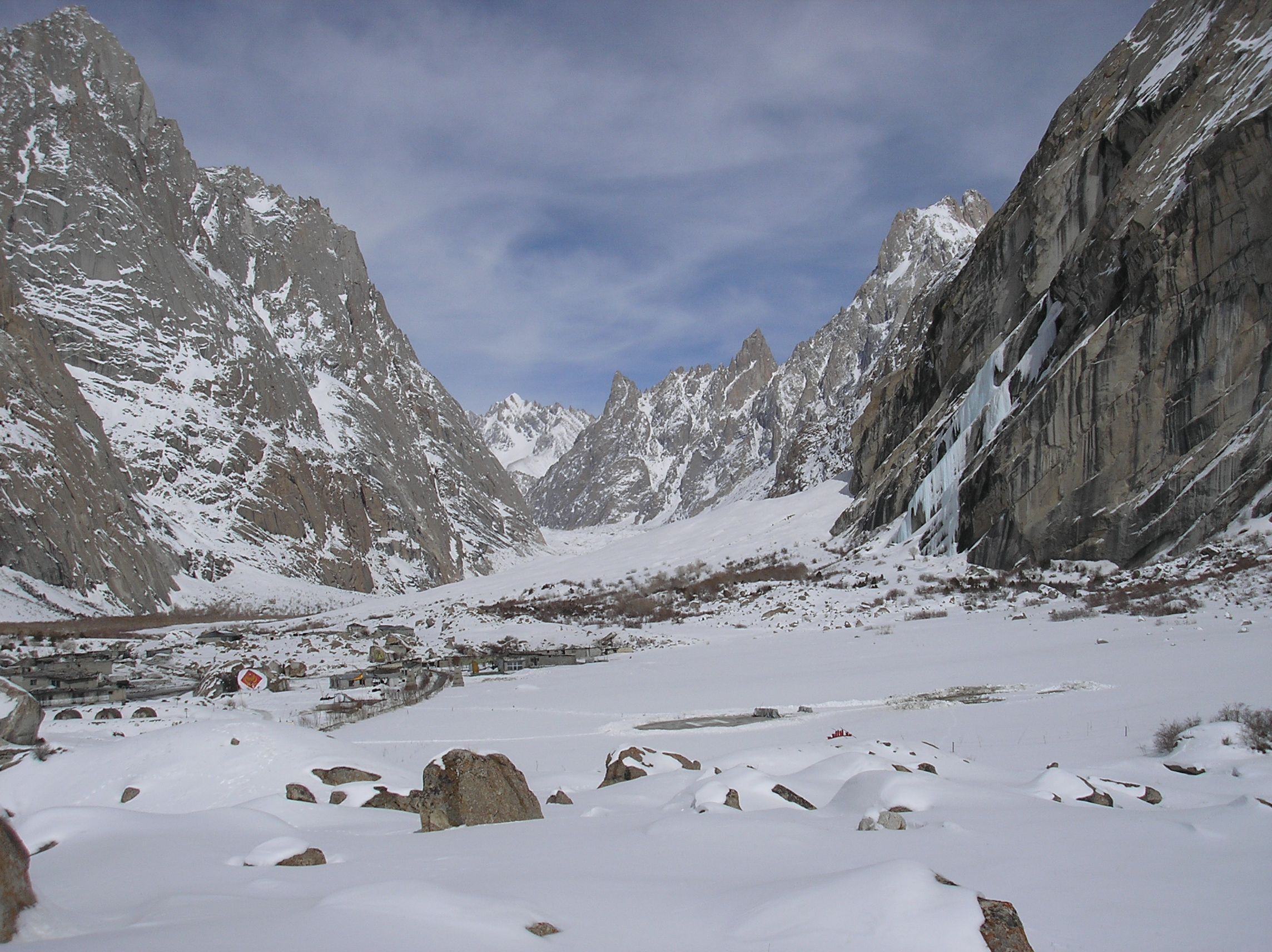 siachin